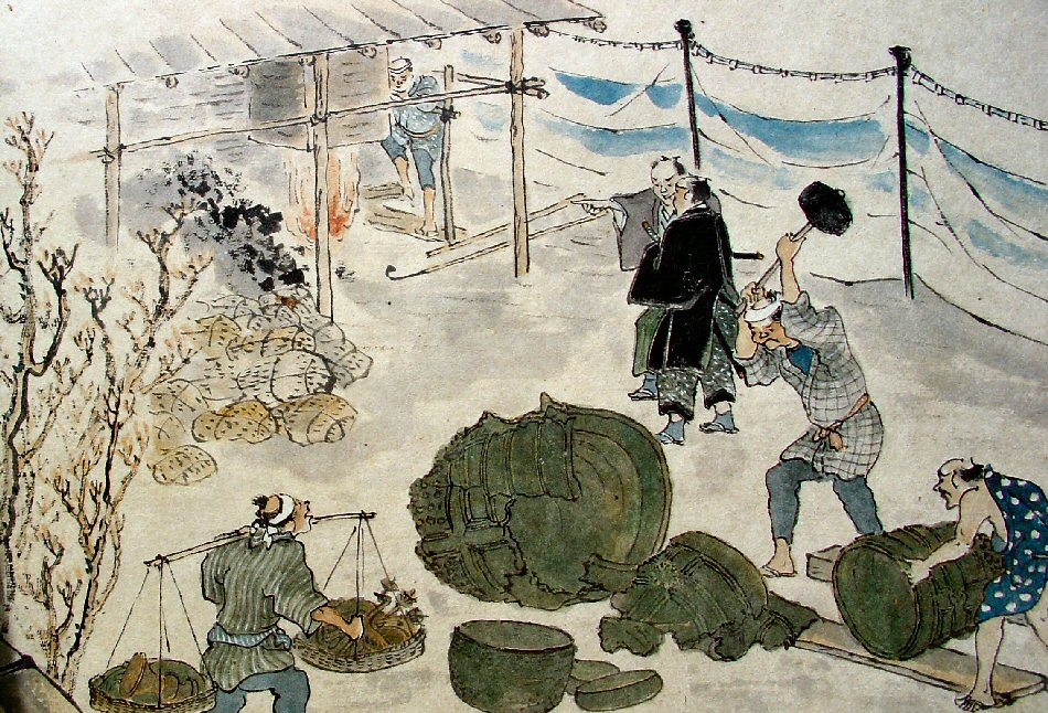 An episode of the Haibutsu kishaku, anti-Buddhist violence movement of the Meiji Period - temple bells being smelted for the bronze.